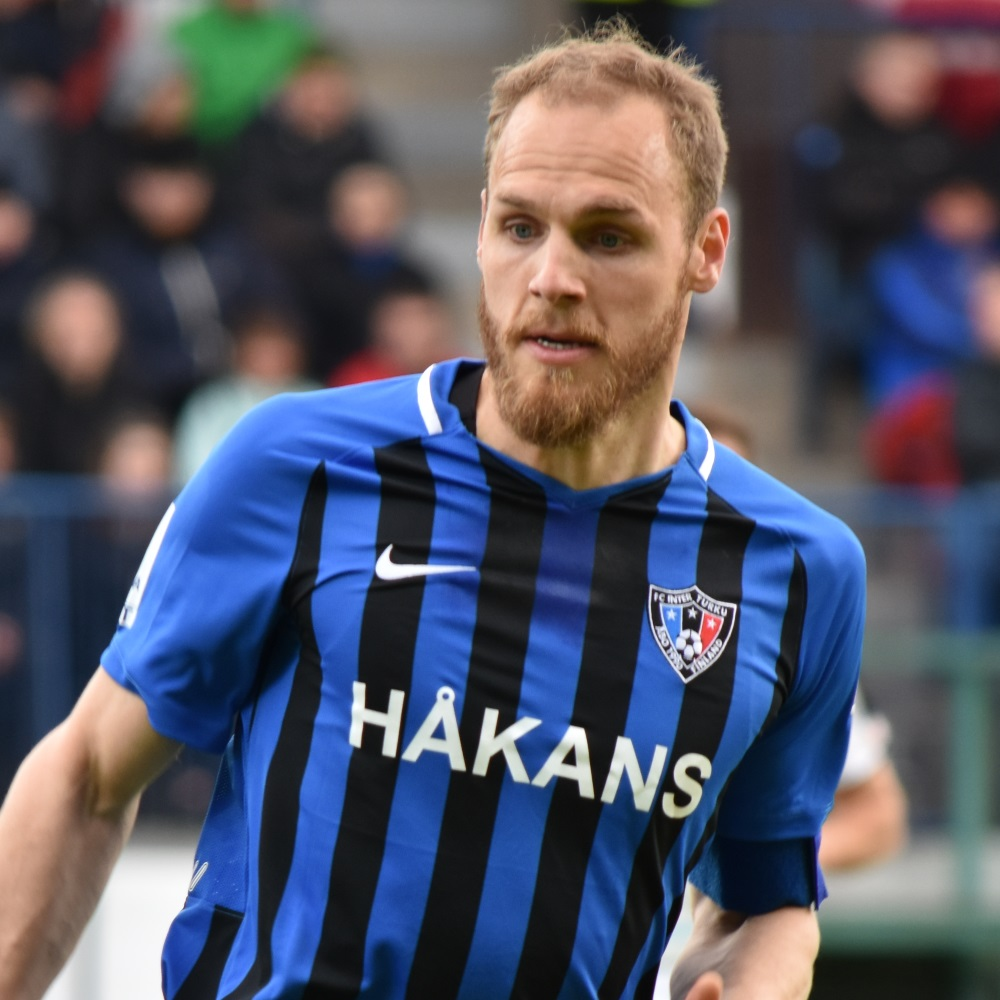 Football player Timo Furuholm (FC Inter Turku)